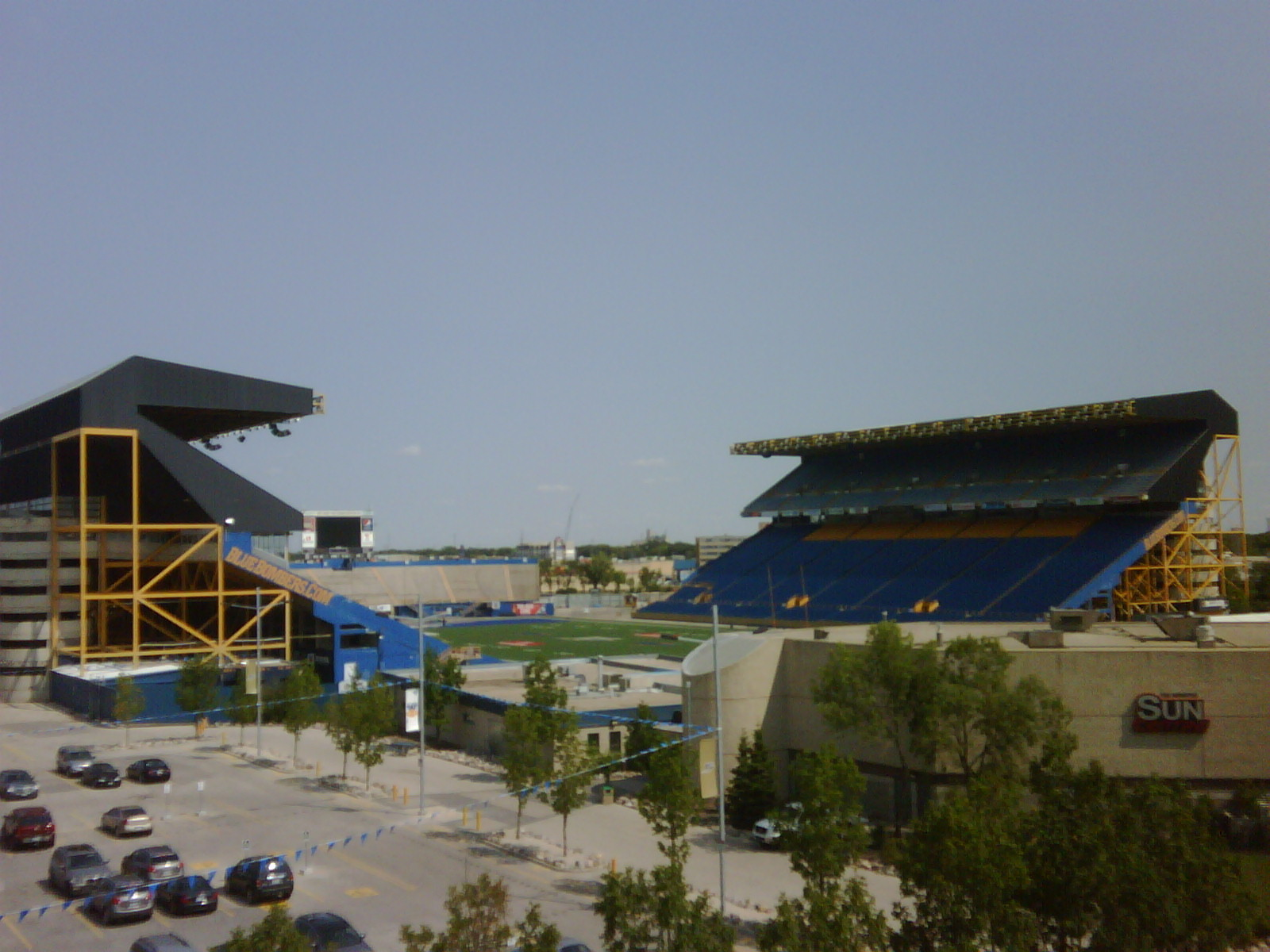 CanadInns Stadium. Winnipeg Blue Bombers home field.